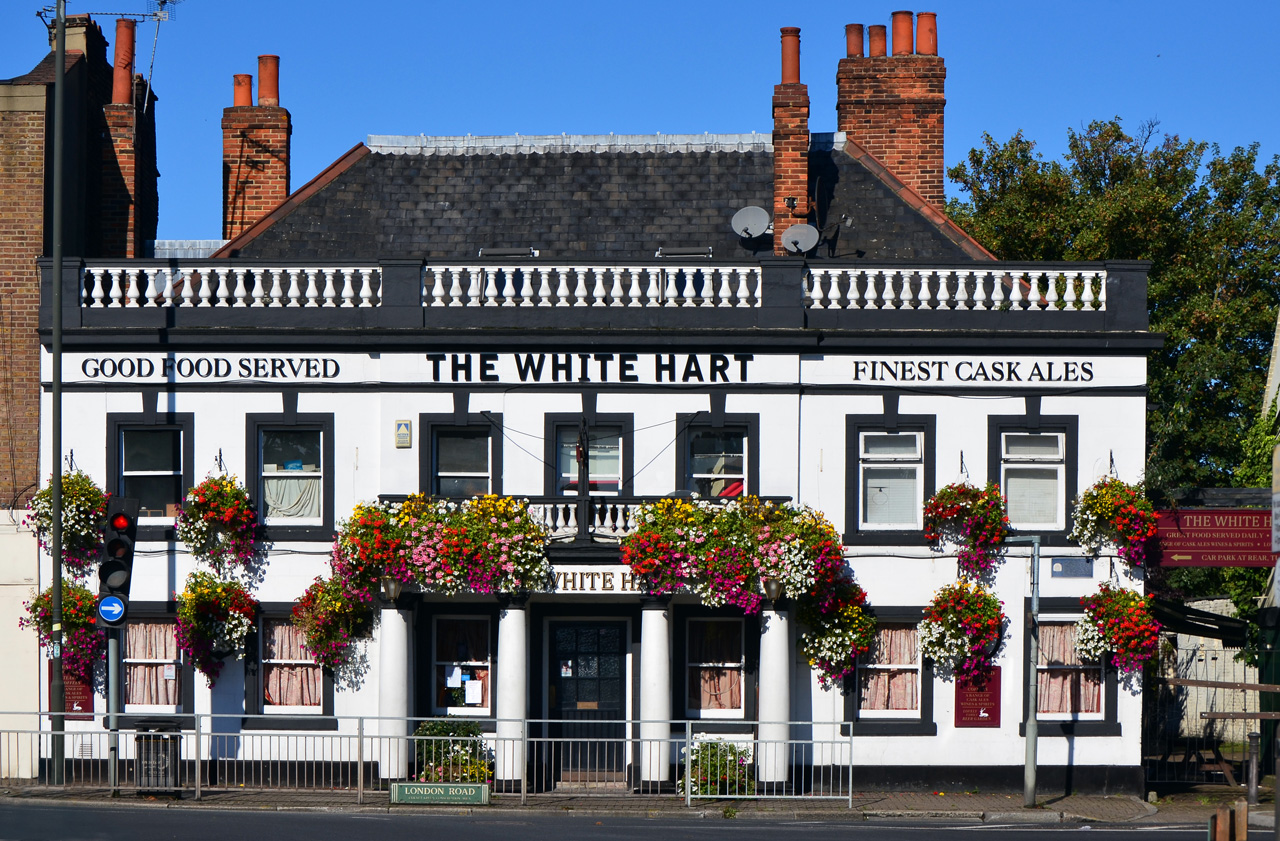 Mitcham's earliest recorded inn, rebuilt in 1749-50 after serious fire damage. The central porch, with frieze and balustrade, is supported by four Tuscan columns. Stagecoaches used to start from a yard at the rear. Grade II listed. London Road, opposite Cricket Green, London Borough of Merton. ( CC BY-SA - credit: Images George Rex.)